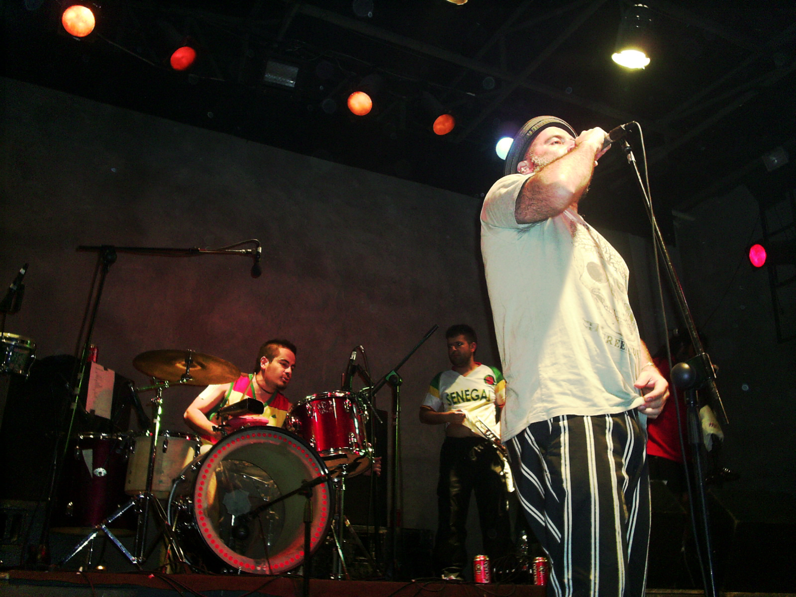 Chico Trujillo performing in Galpón Victor Jara